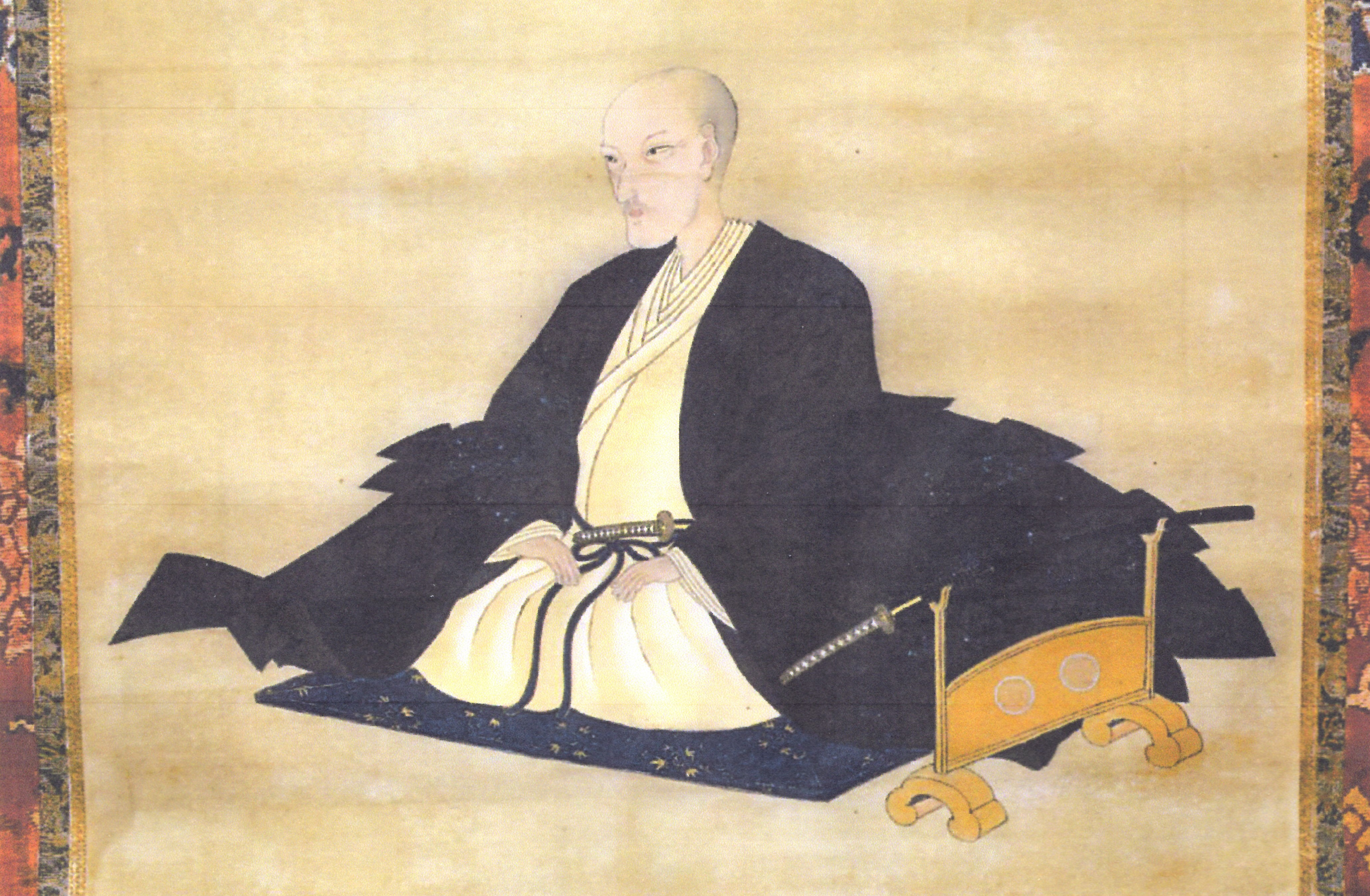 松平斉孝の肖像。